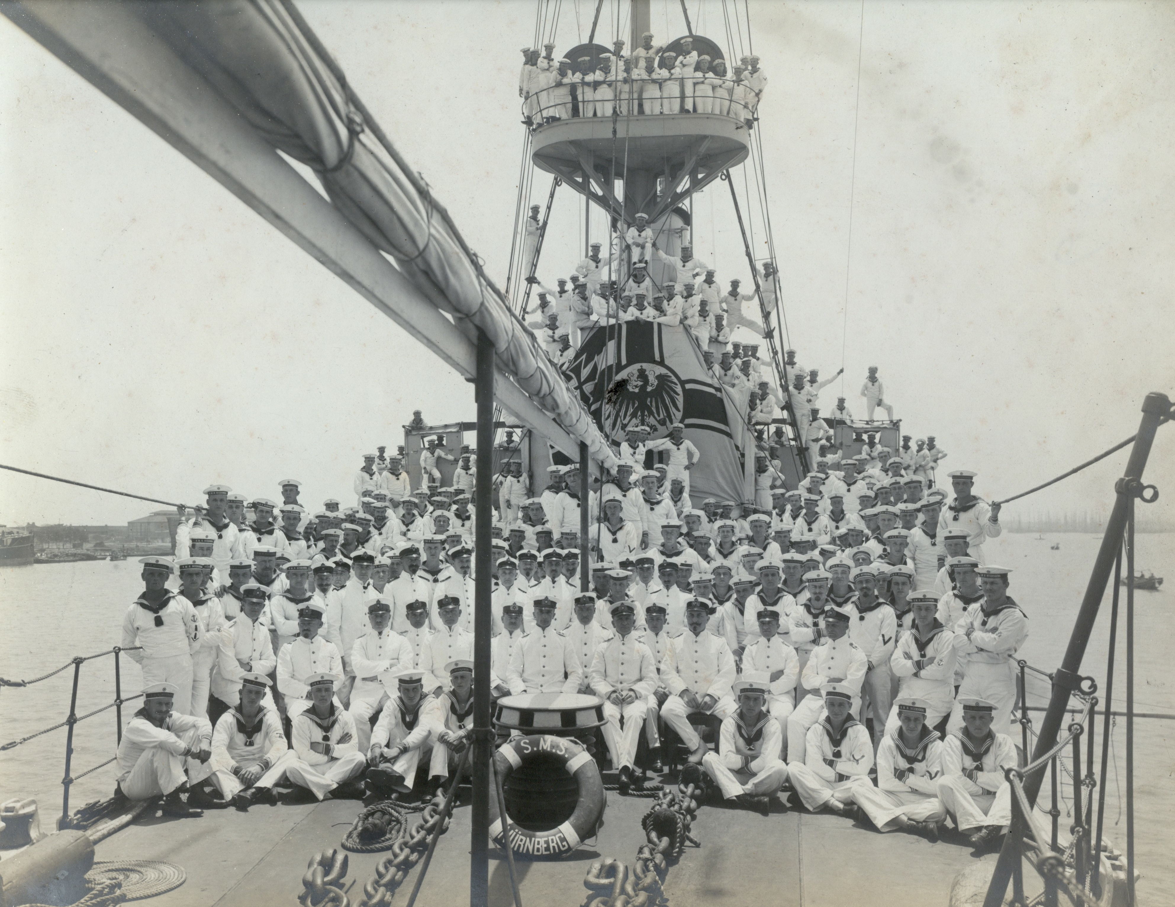 Crew of SMS Nürnberg